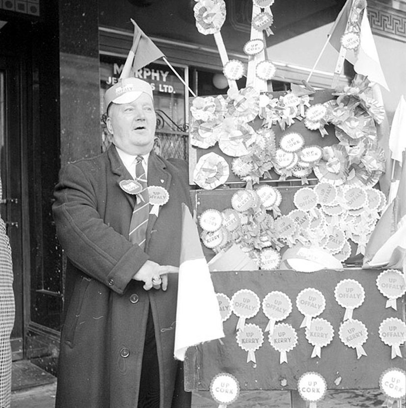 A gentleman selling county rosettes outside Heuston Train Station (formerly Kingsbridge), presumably on a big G.A.A. Weekend (the 1969 All-Ireland football finals were between Kerry & Offaly (senior), and Cork & Kerry (junior) Date: 1969 NLI Ref.: WIL 58[5]